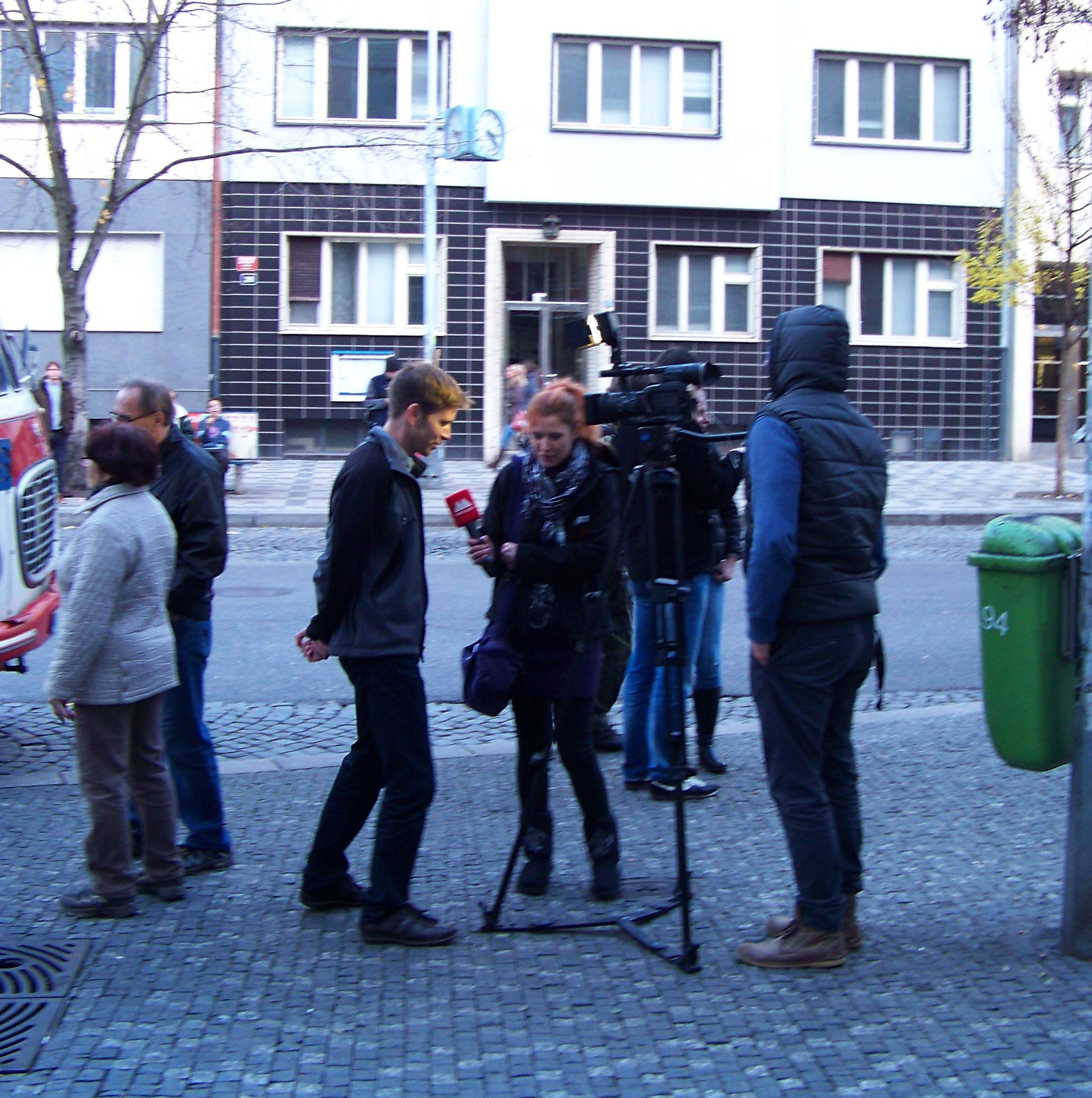 Prague-Smíchov, Czech Republic. Stroupežnického street, an interview of Metropol TV with Filip Drápal, spokeman of ROPID on the PID Day.